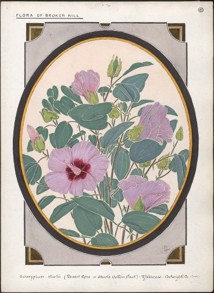 E.G.1 watercolour ; 33.5 x 24.2 cm. Series: Flora of Broken Hill ; 6. [Title from inscription below image.]Gossypium sturtii (Desert rose or Sturt's cotton plant), Malvaceae, Cartwright's Cr., sum. [i.e. summer]